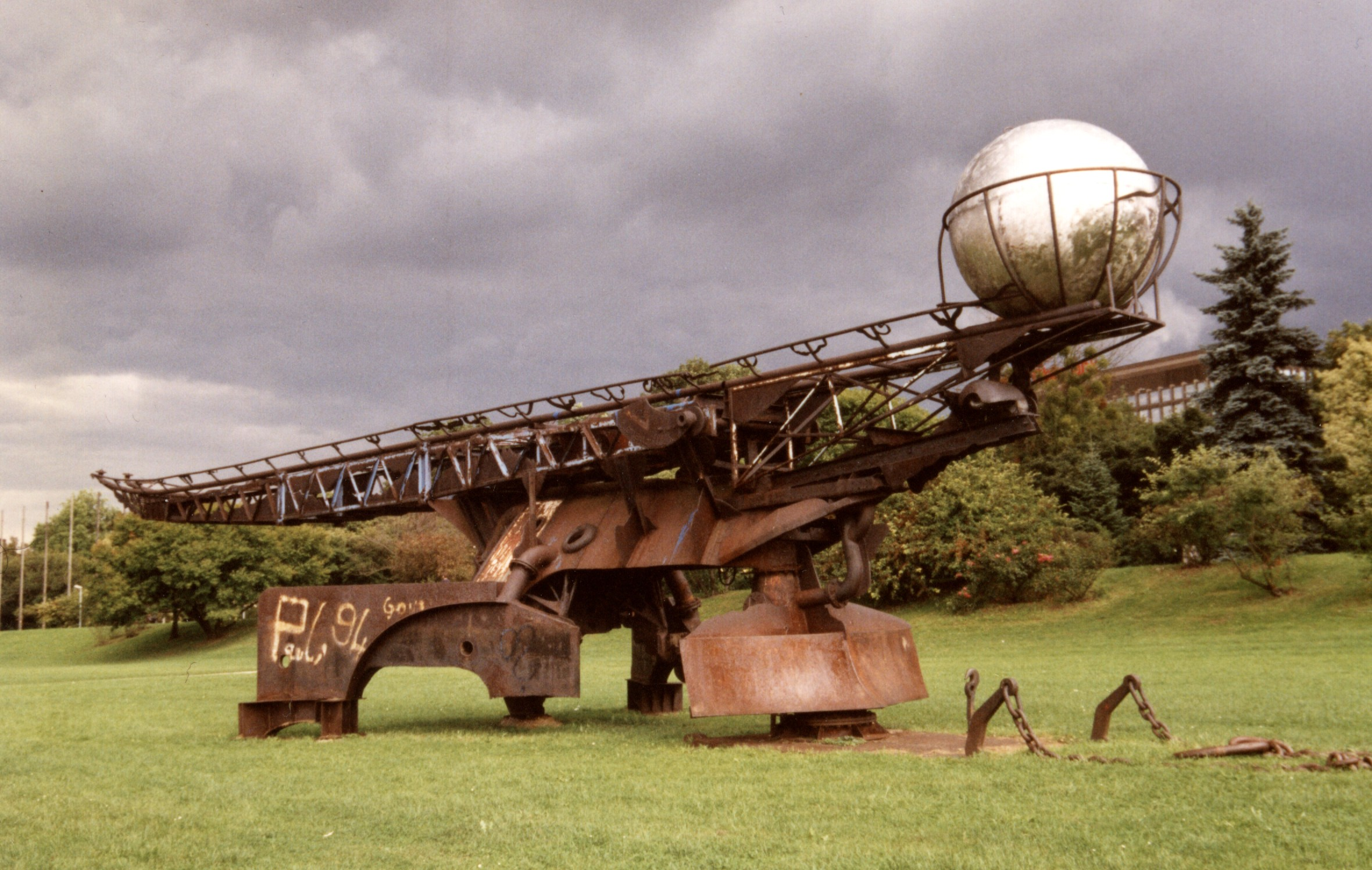 sculpture by Bernhard Luginbühl in the Danube Park, Linz (between the Brucknerhaus and where the Lentos Art Museum has since been built).